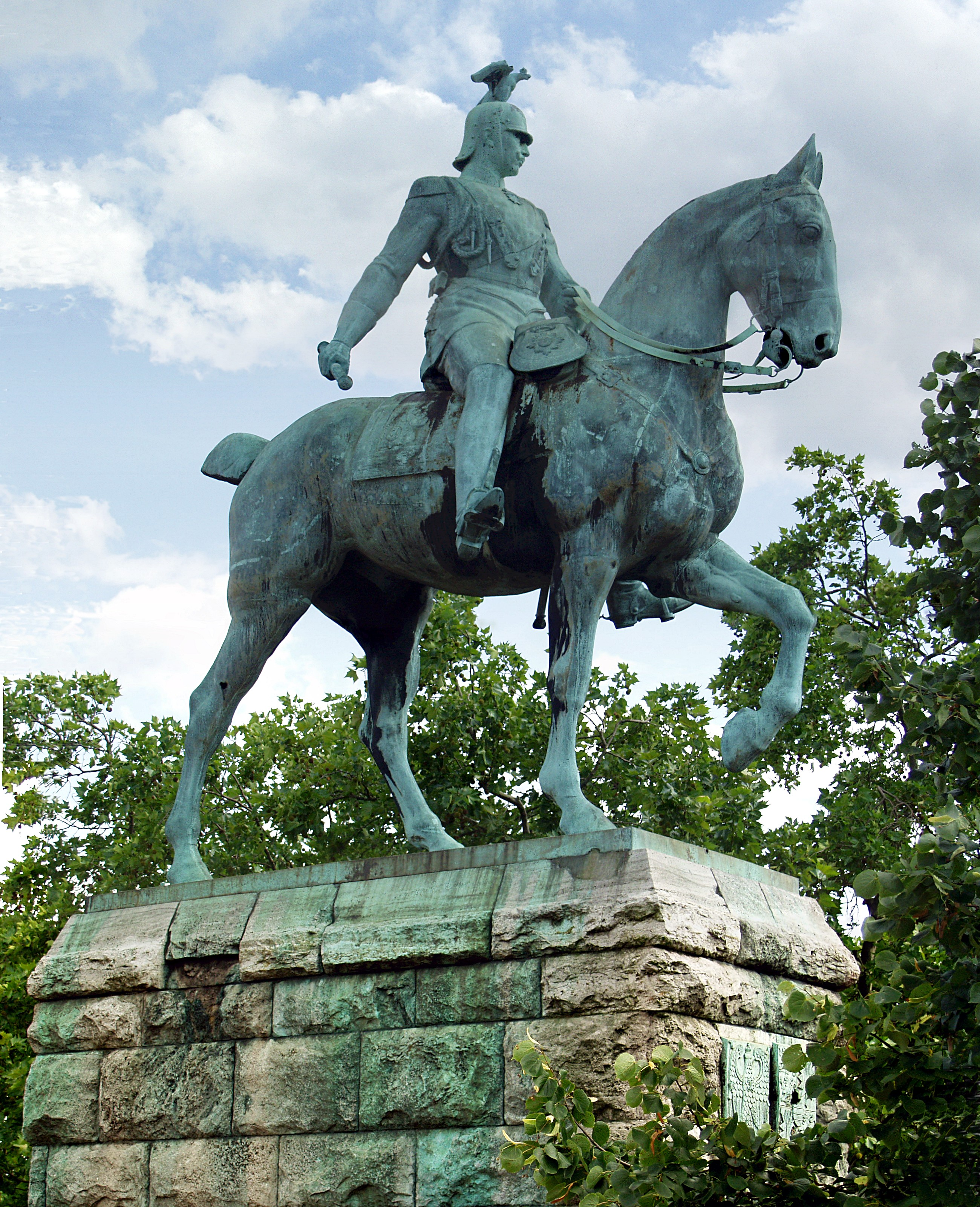 Equestrian statue of Wilhelm II.